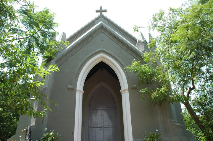 Independant Anglican Church